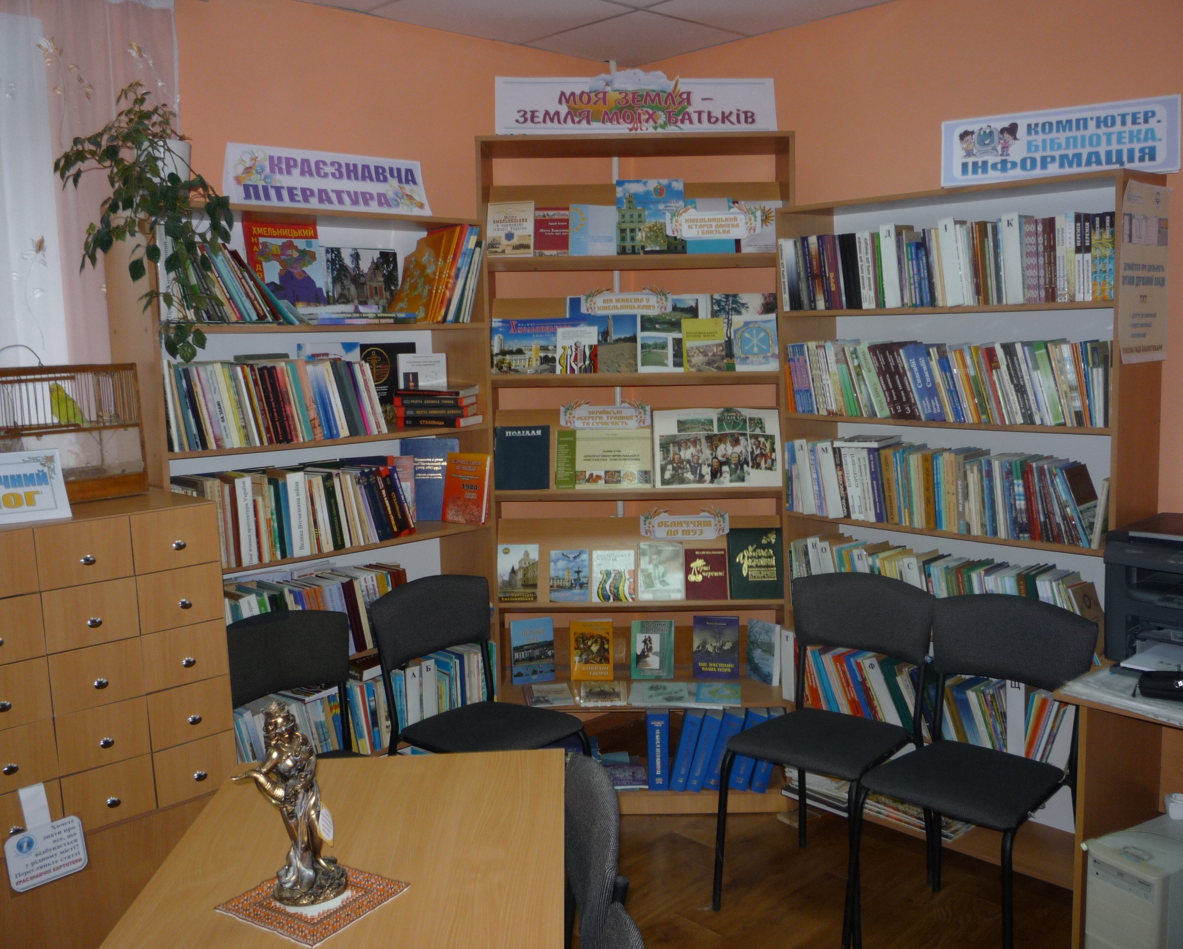 м. Хмельницький. Абонемент бібліотеки-філії після ремонту